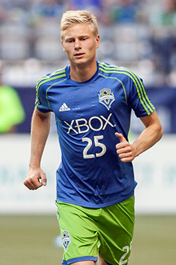 Photo of soccer player Andy Rose